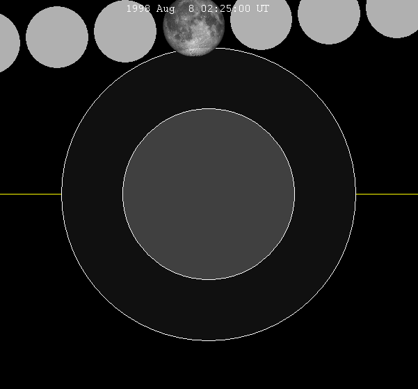 August 1998 lunar eclipse chart of moon's penumbral lunar eclipse path through the earth's shadow. thumb